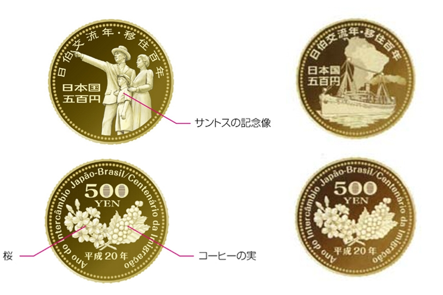 500 Japanese yens coin commemorating 100 years of Japanese Immigration in Brazil. Tail with image of coffee and cherry fruits together